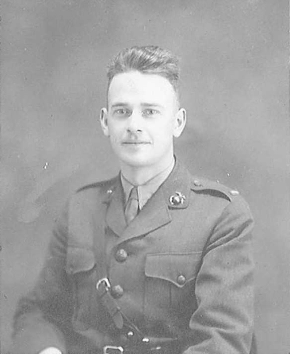 Future Major general Francis B. Loomis Jr. as young lieutenant in 1926.